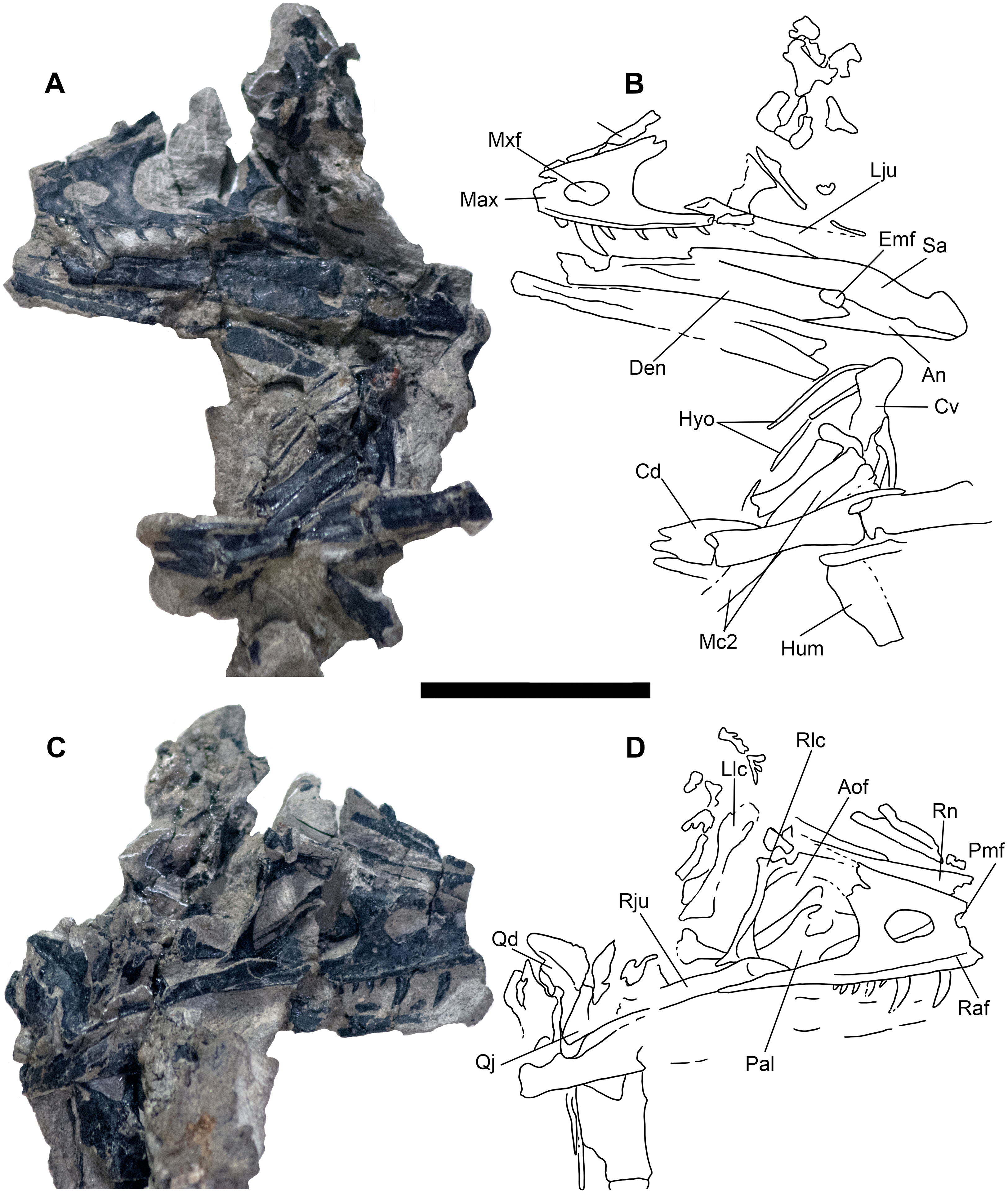 Skull block and interpretive drawing. Skull block in left lateral (A and B) and right lateral (C and D) views. Abbreviations: An, angular; Aof, antorbital fenestra; Cd, mid caudal vertebrae; Cv, cervical vertebra; Den, dentary; Emf, external mandibular fenestra; Hyo, hyoids; Hum, humerus; Lju, left jugal; Llc, left lacrimal; Max, maxilla; Mc2, metacarpal II; Mxf, maxillary fenestra; Pal, palatine; Pmf, promaxillary fenestra; Qd, quadrate; Qj, quadratojugal; Raf, ridge under antorbital fossa; Rju, right jugal; Rlc, right lacrimal; Rn, right nasal; Sa, surangular. Scale bar = five cm.